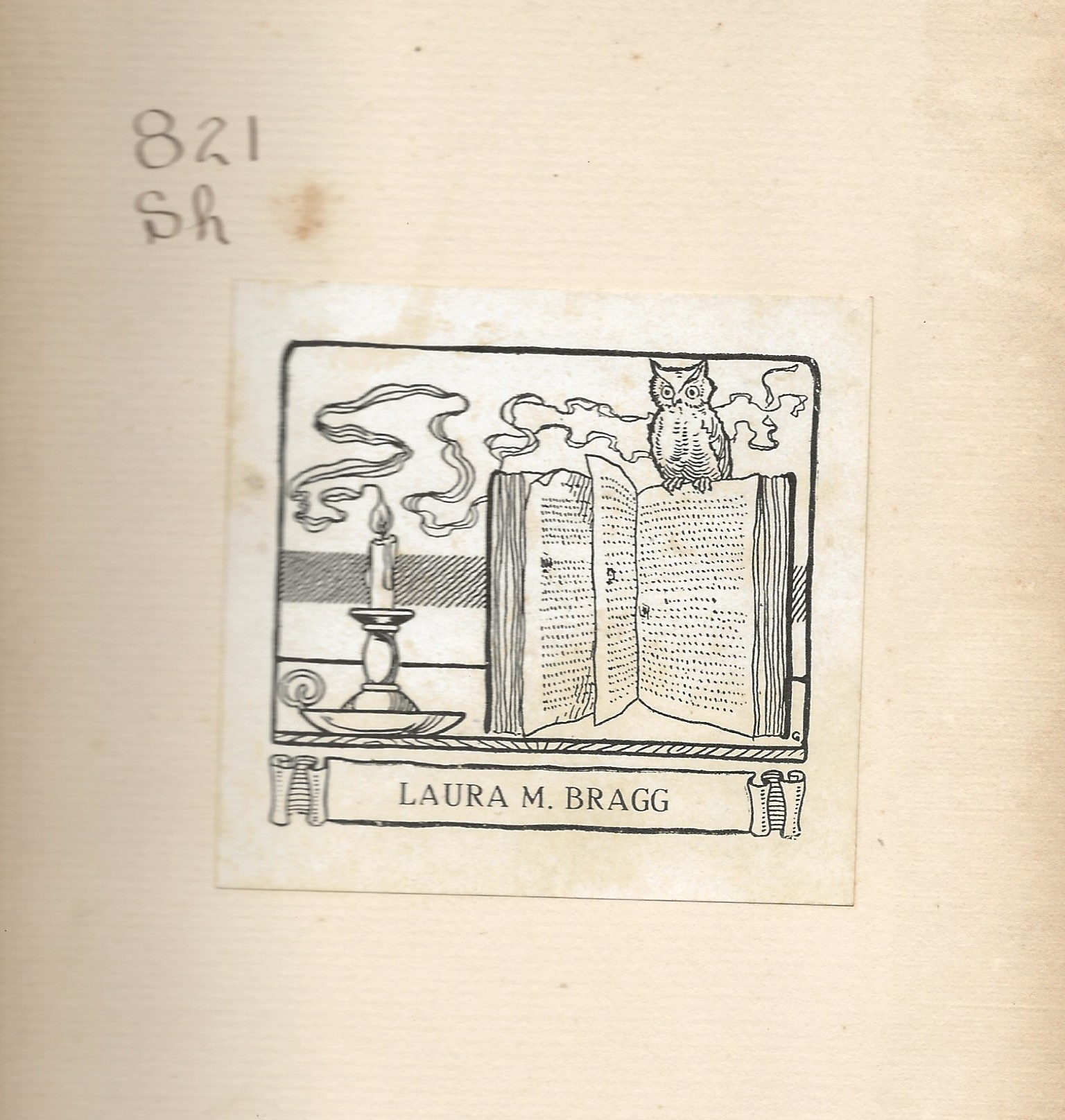 Image of an owl sitting on top of an open book next to a lit candle in a candle holder. Under the image is the name Laura M. Bragg.